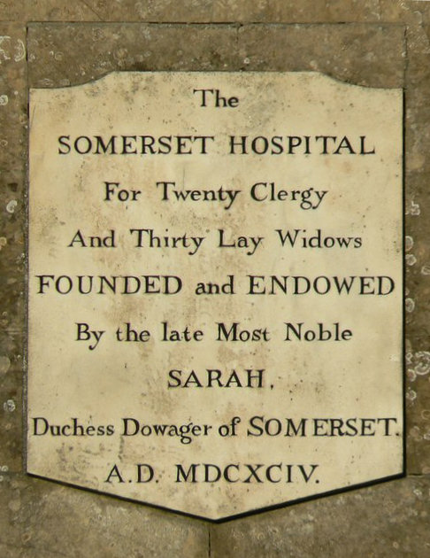 The Somerset Hospital, Froxfield, Wiltshire dedication The purpose of the hospital is a little ambiguous from the wording on this plaque but it appears to mean that it was for the widows of both clergymen and laymen.